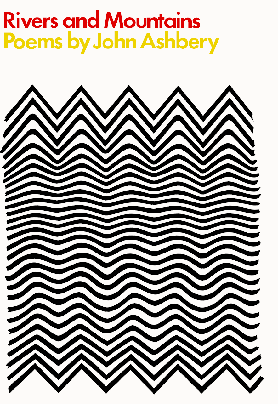 Cover design from the first-edition dust jacket of Rivers and Mountains (1966) by the American poet John Ashbery. Published by Holt, Rinehart & Winston (now called Holt McDougal).